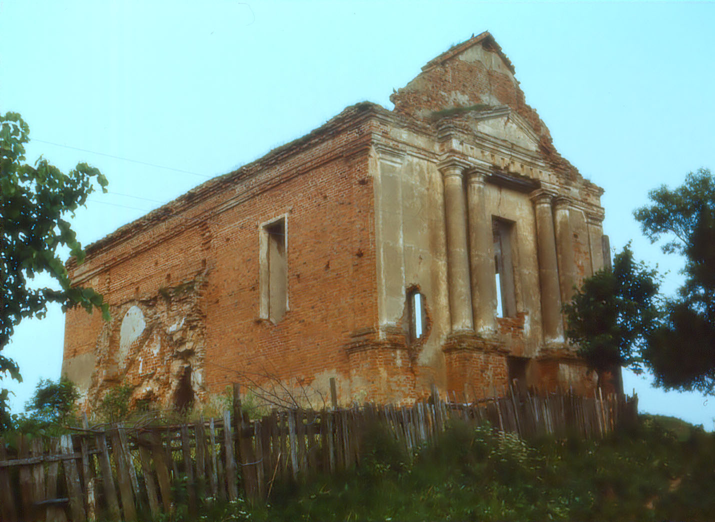 Catholic church of Franciscan in Ashmiany